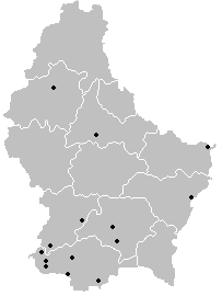 A map of cantons of Luxembourg after mergers of 2006-01-01, with locations of teams in the Luxembourg National Division in season 2006-07 marked.